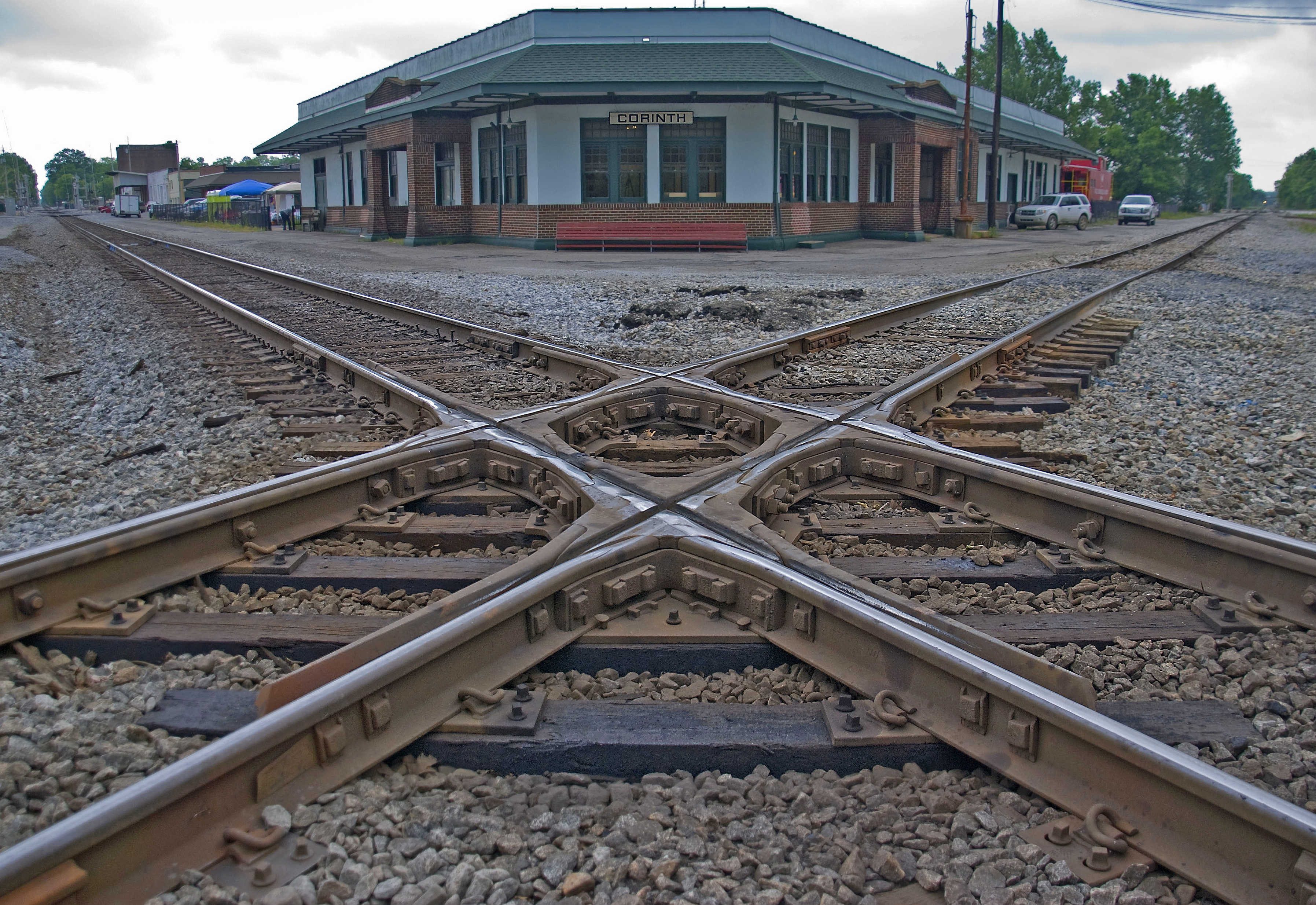 Junction of the Memphis & Charleston and the Mobile Ohio Railroads in downtown Corinth, Mississippi. The view is to the southeast.in the area.